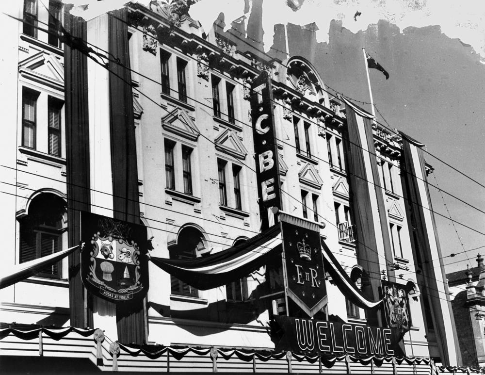 Queensland's Coat of Arms and the Royal Coat of Arms are part of the decorations on the T. C. Beirne building, 1954